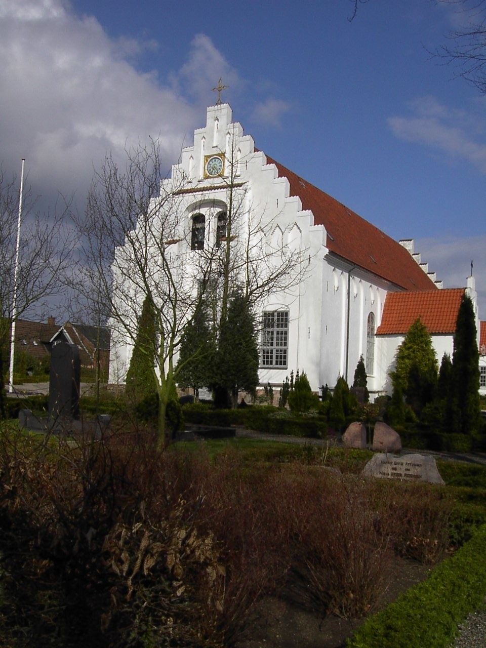 Trinitatis Church in the city Fredericia in Denmark. It has no tower because that would make it an easy target to shoot at from outside the city.